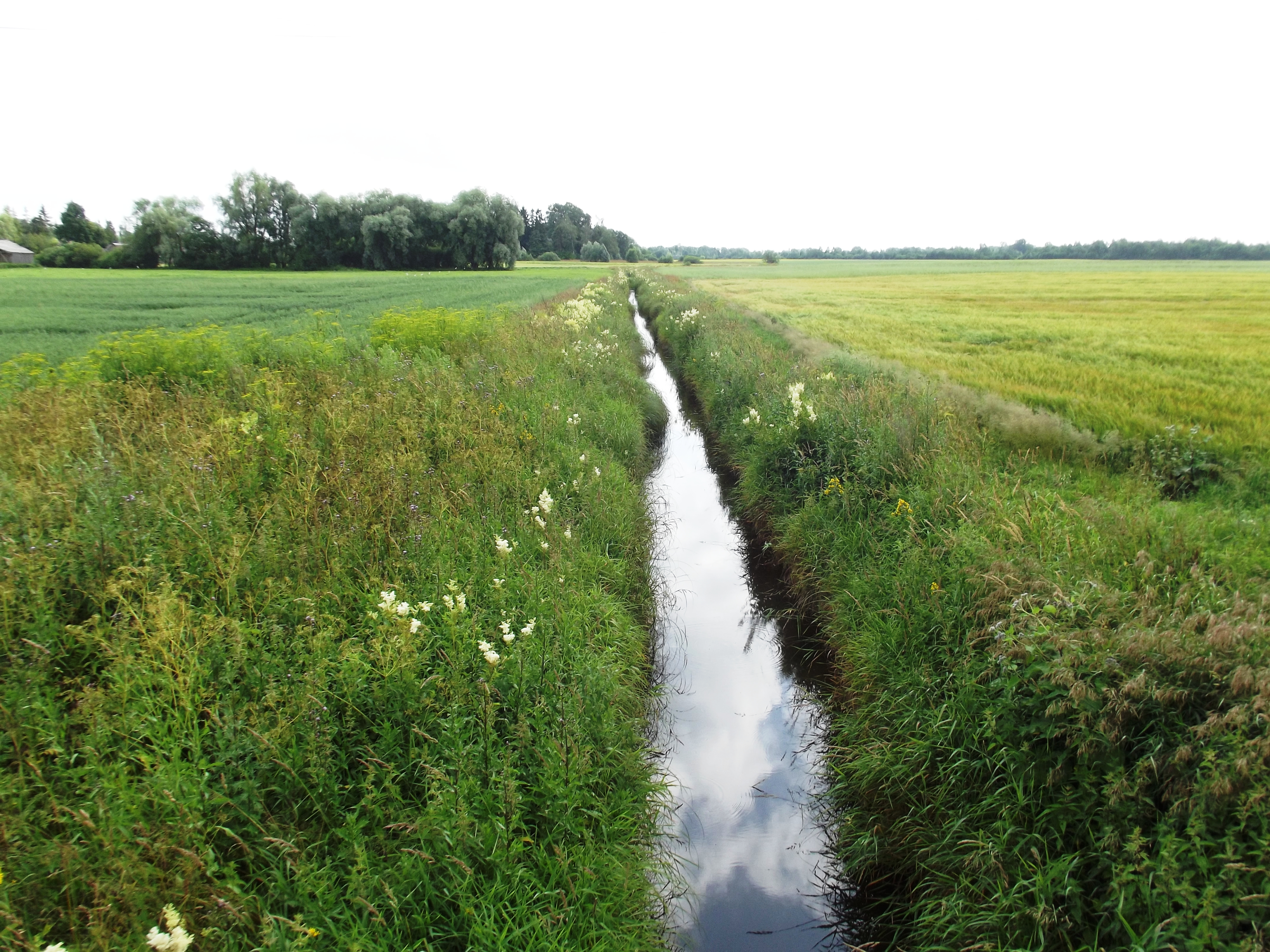 Stream of Plonė by Gedučiai, Pakruojis district, Lithuania